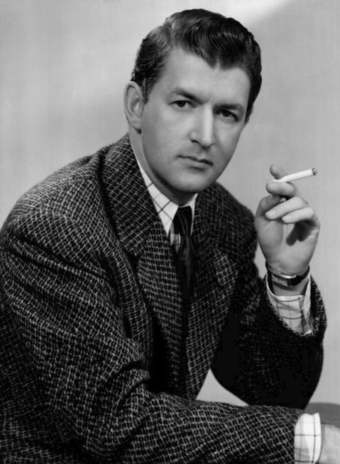 Photo of Jay Jostyn in the title role of the radio program Mr. District Attorney.